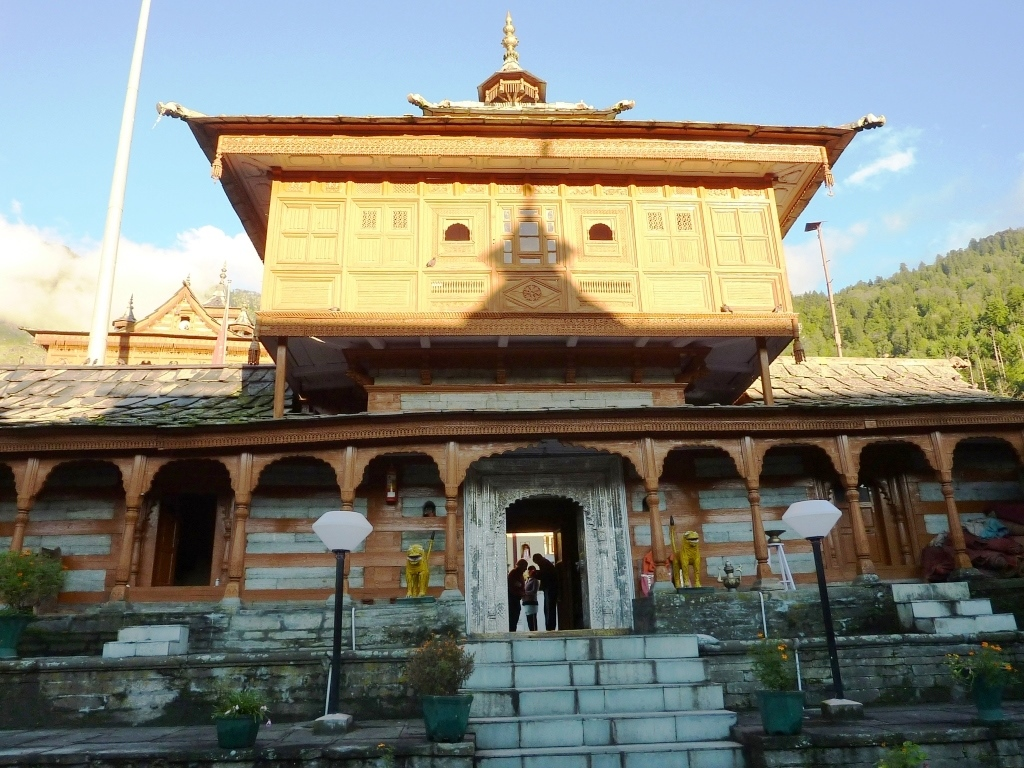 i took this photo of the silver entrance to the temple in 2010